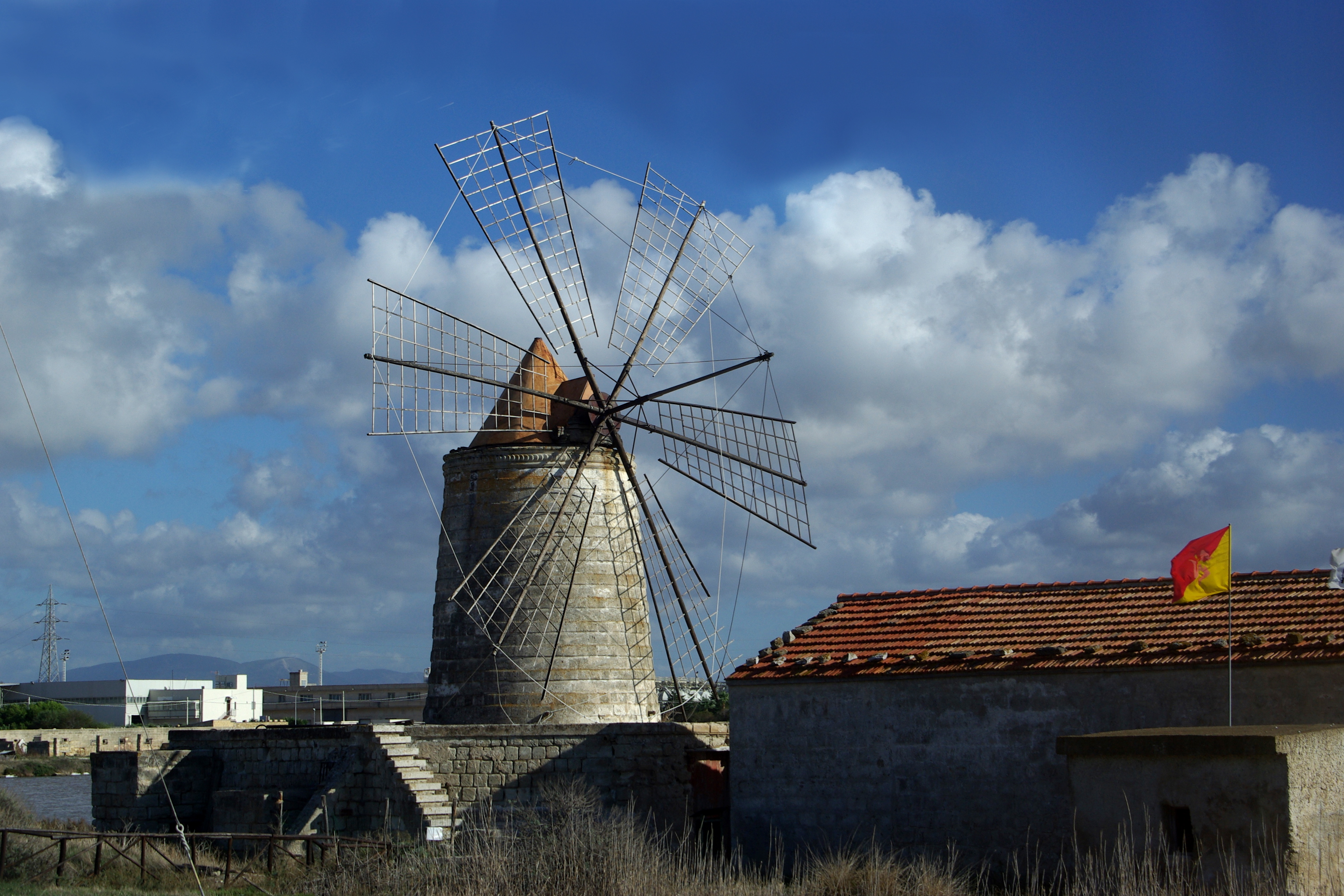 Italy, Sicily, Trapani, windmill